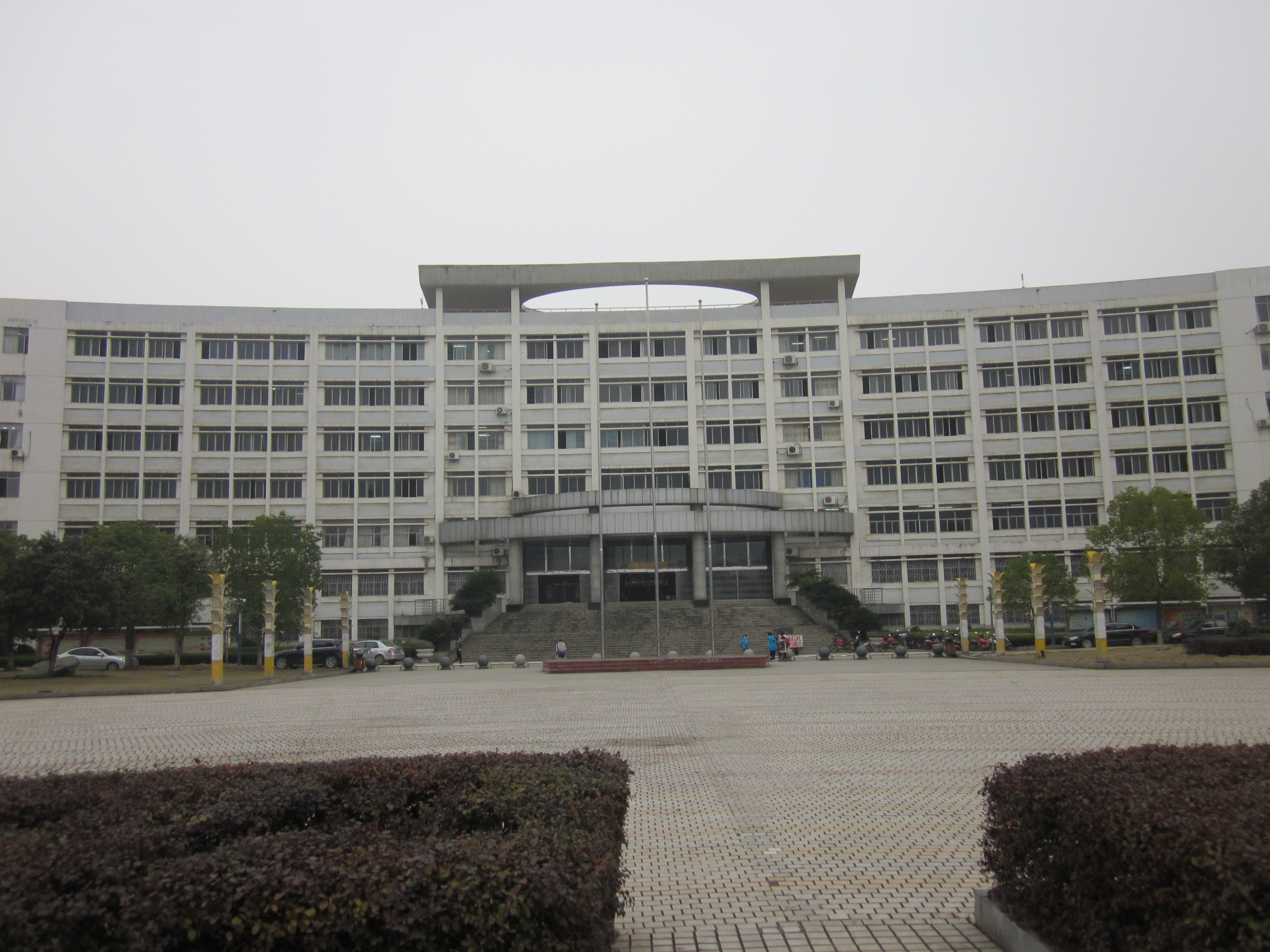 Hunan University of Humanities, Science and Technology （simplified